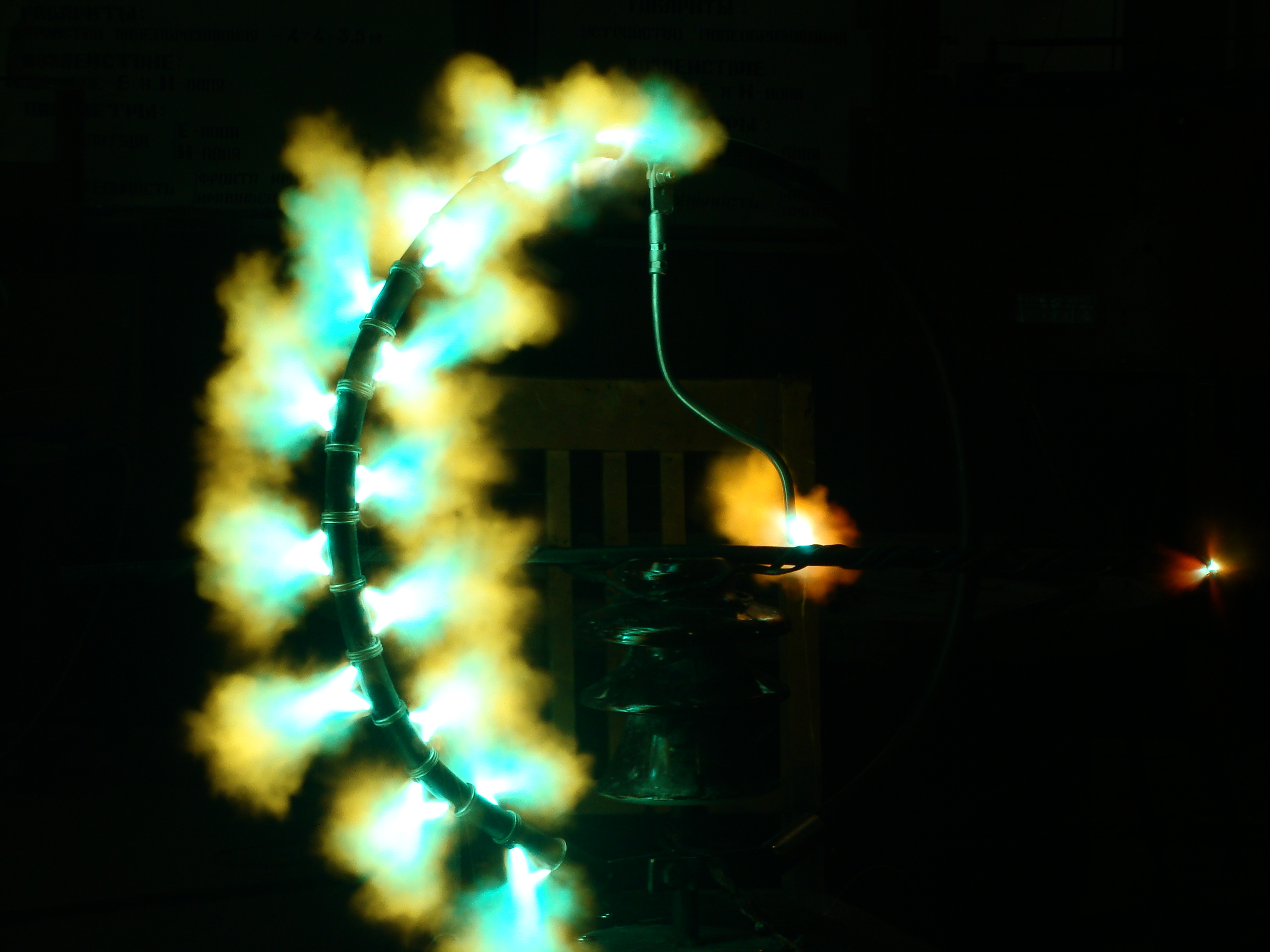 Photo of long-flashover arrester (LFA) stressed by lighting stroke; a LFA is a lightning protection device for medium-voltage overhead power lines